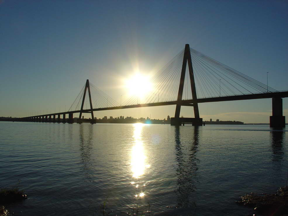 "San Roque González de Santa Cruz" International bridge, connect Encarnación, Itapua Dept. (Paraguay), with Posadas, Misiones Province (Argentina).